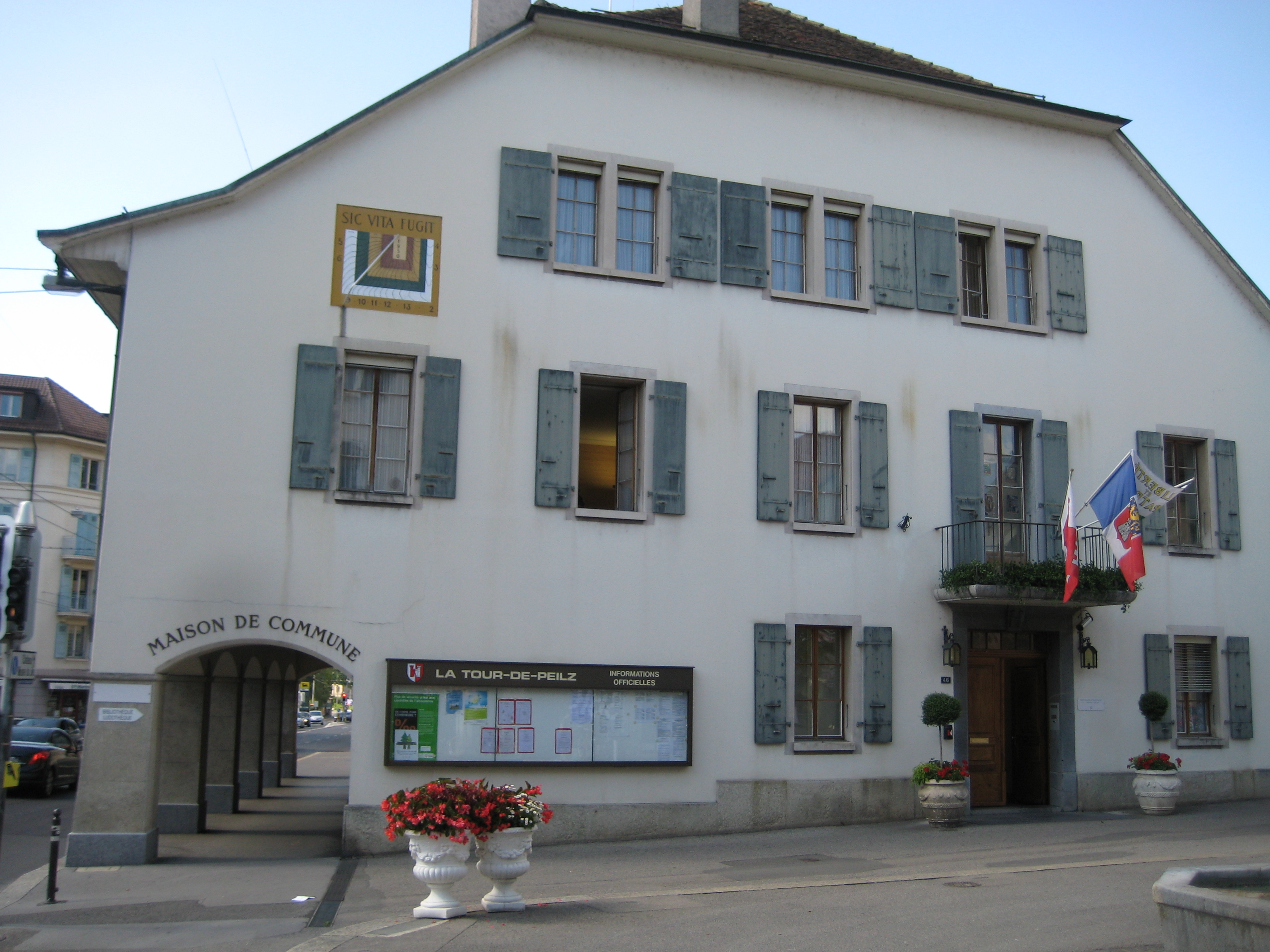 town hall of La Tour-de-Peilz, Vaud, Switzerland